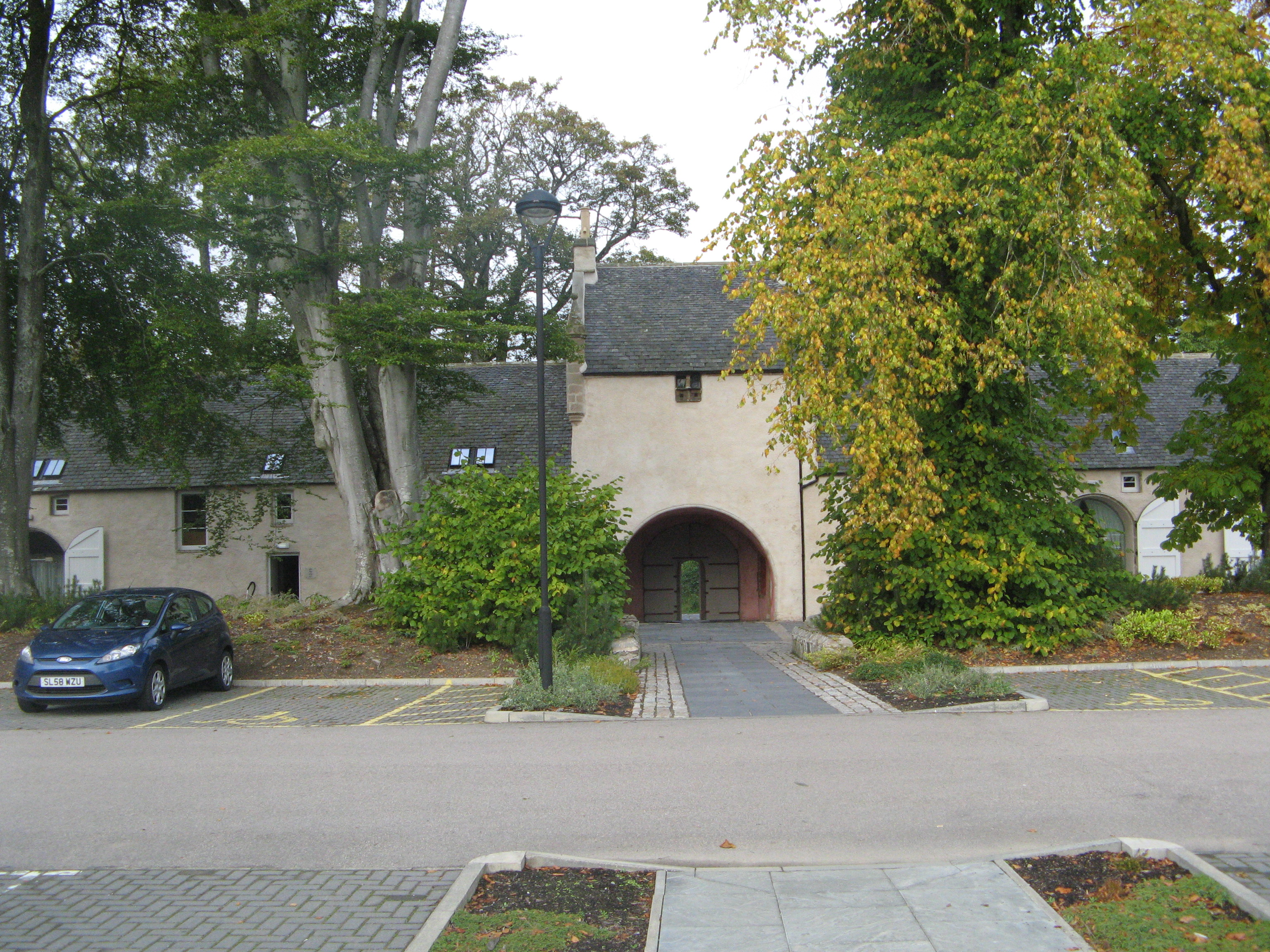 Meldrum House, stable and coachhouse block